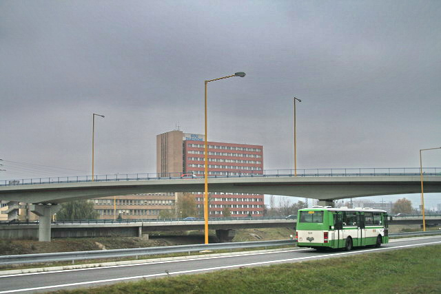 Fly-over junction "Prešovská-Sečovská" in Košice, Slovakia